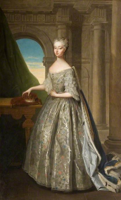 Portrait of Princess Anne of Great Britain (1709-1759)